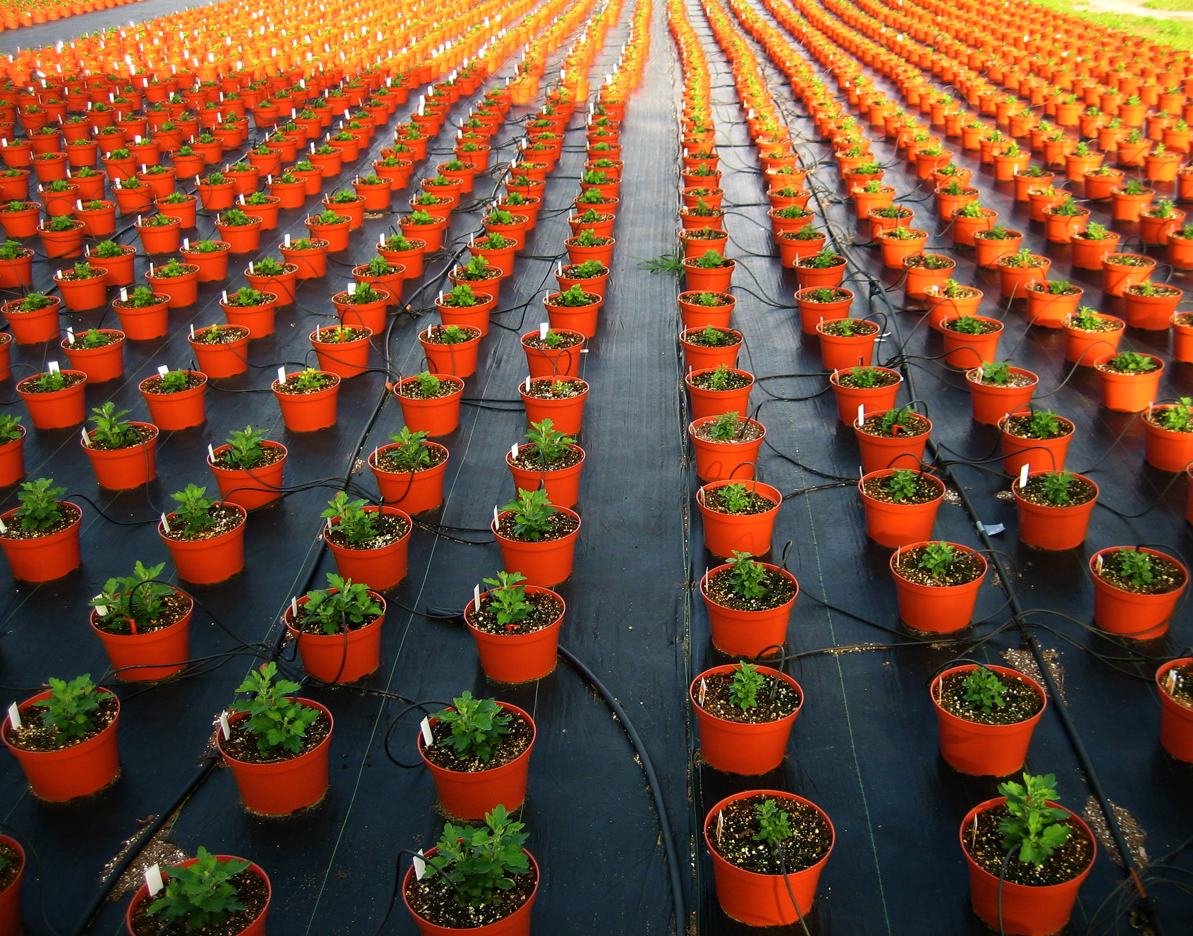 Rows of potted Chrysanthemums in a plant nursery